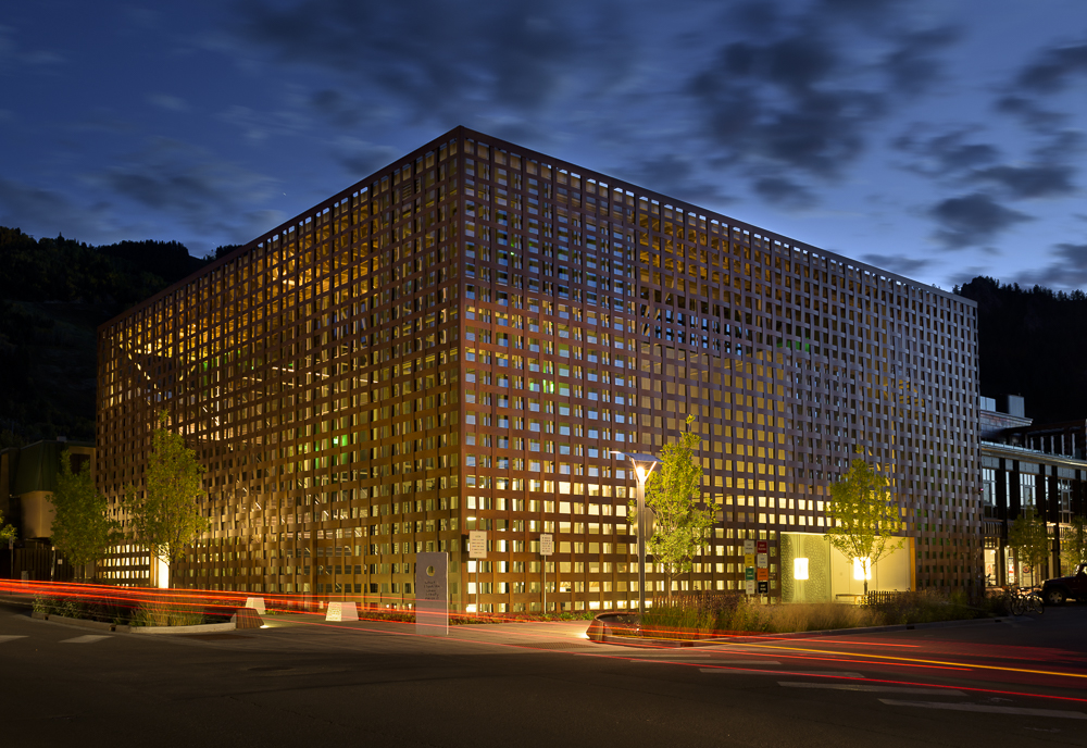 The Aspen Art Museum at dusk, September 2015.